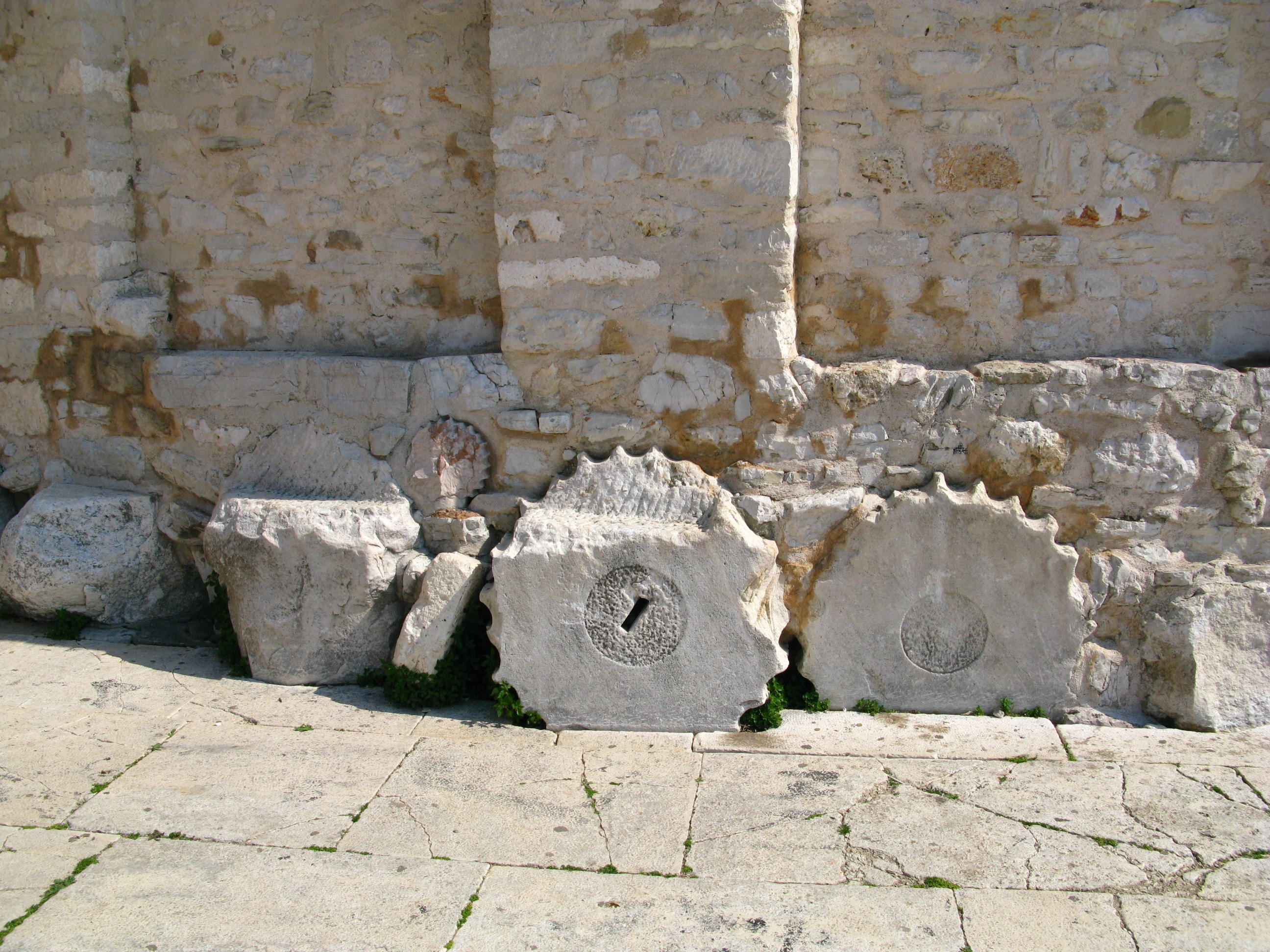 Church of St. Donatus in Zadar / Croatia / Adriatic Sea. Die Kirche ist auf Steinen des römischen Forums der Stadt Lader erbaut.